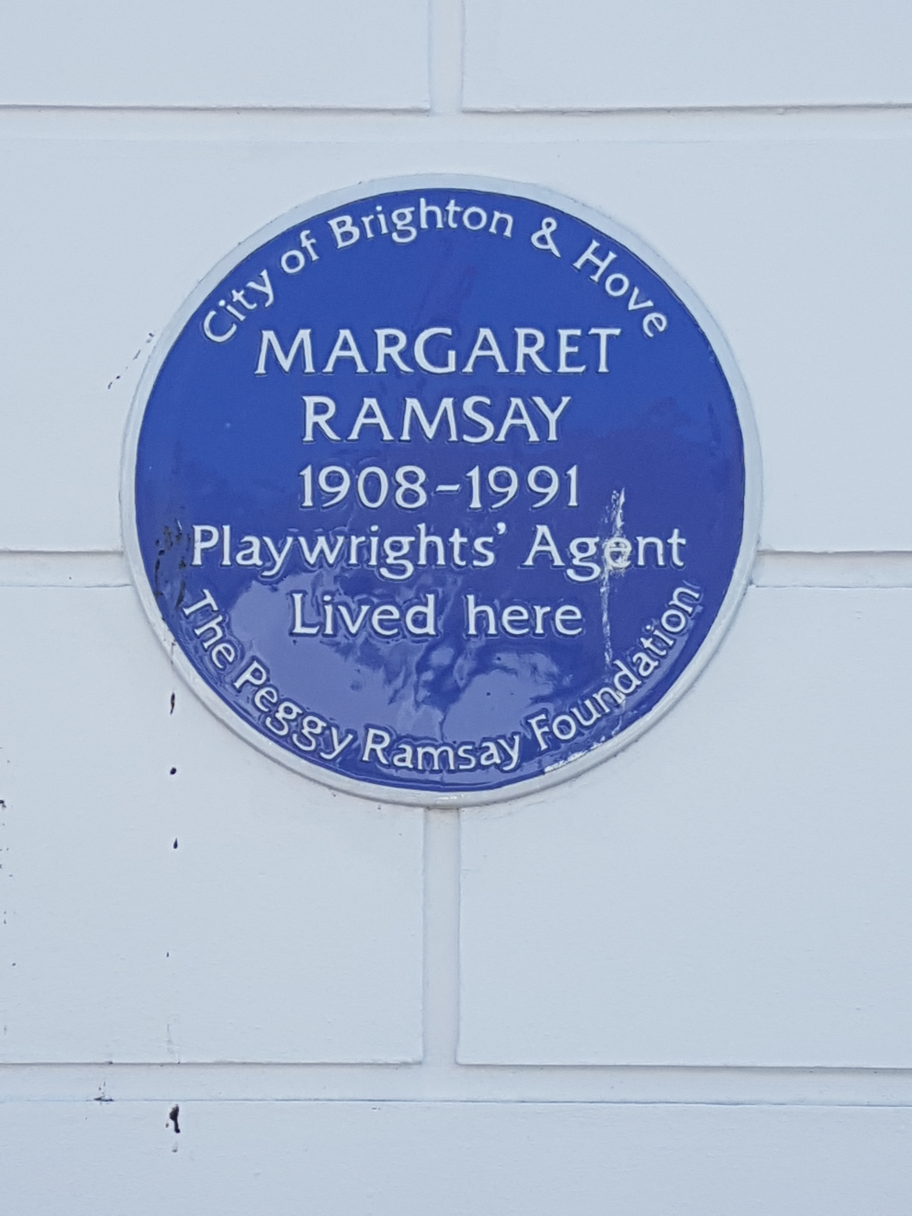 Blue plaque at 34 Kensington Place, Brighton, England to commemorate where Ramsay lived.